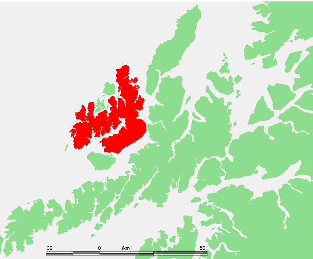 Island of Norway - Langoya.PNG